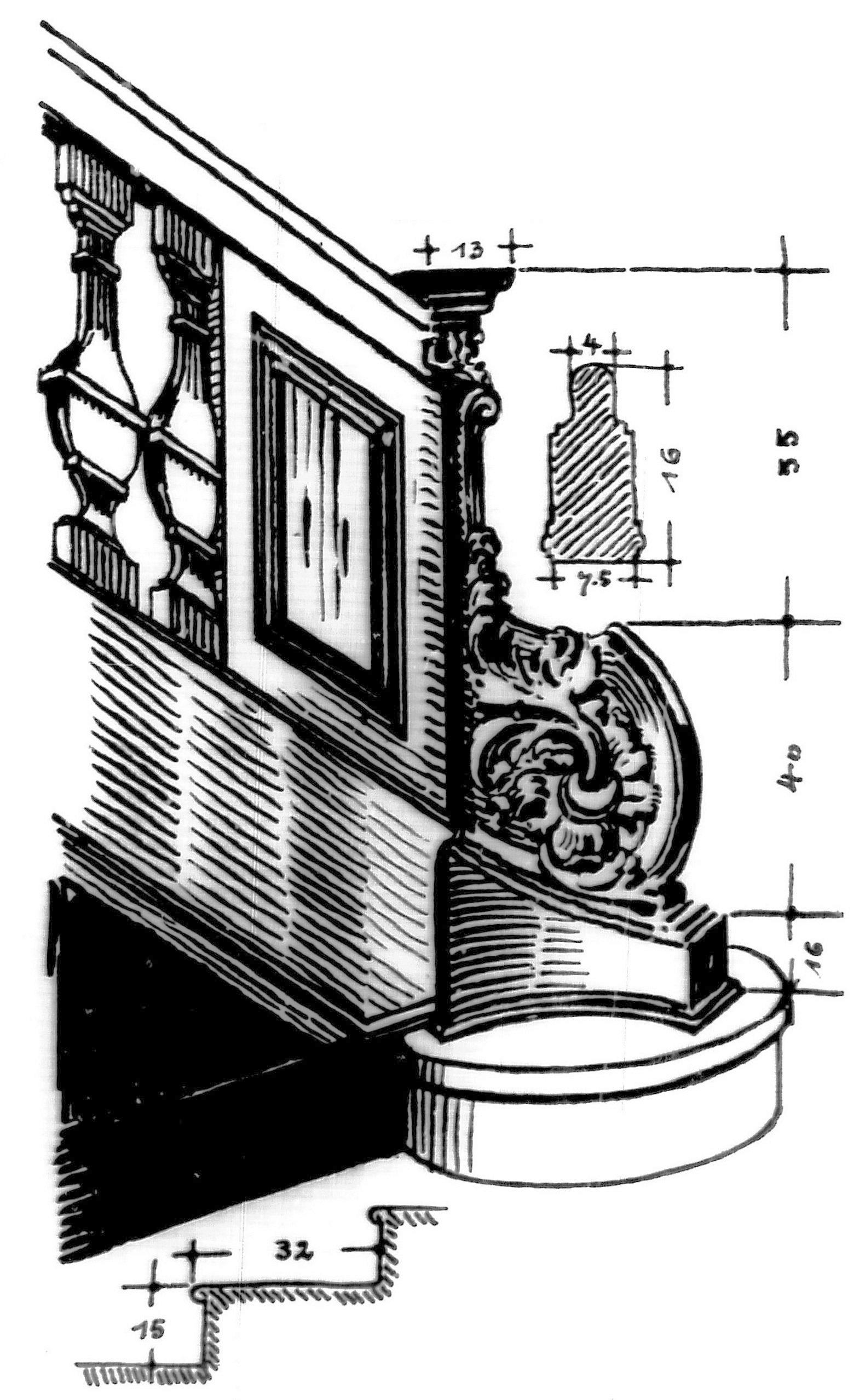 Paul_Sültenfuß_(1872-1937),_Das_Düsseldorfer_Wohnhaus_bis_zur_Mitte_des_19._Jahrhunderts,_(Diss._TH_Aachen),_1922,_Düsseldorf,_Altestadt_14,_Treppe.jpg